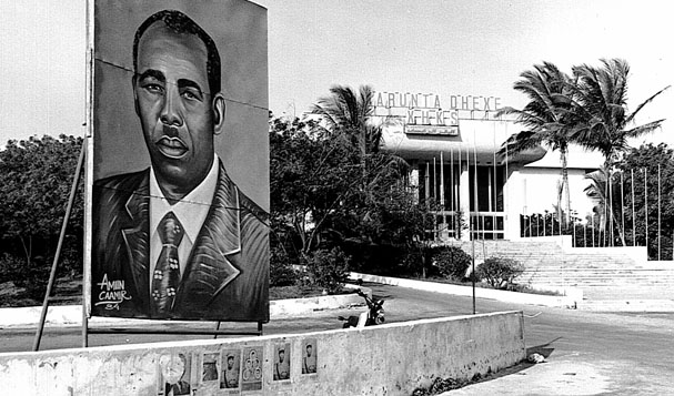 Poster in Mogadishu of Mahammad Siad Barre, a revolutionary leader of Somalia, deposed in 1991